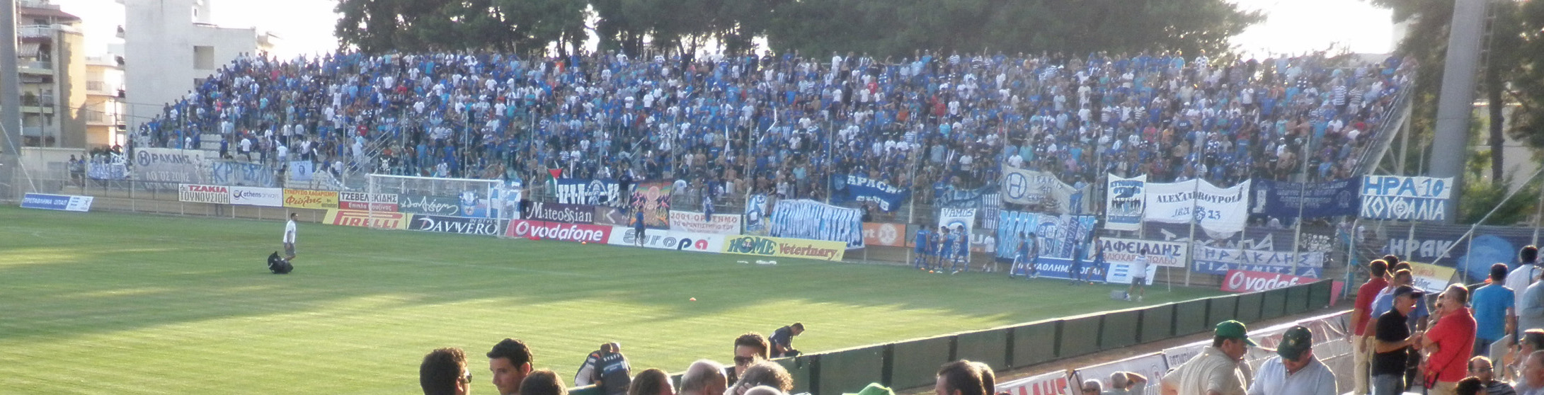 Supporters of Iraklis in an away match against Panthrakikos in the opening matchday of the 2009–10 Superleague season on 23 August 2009.